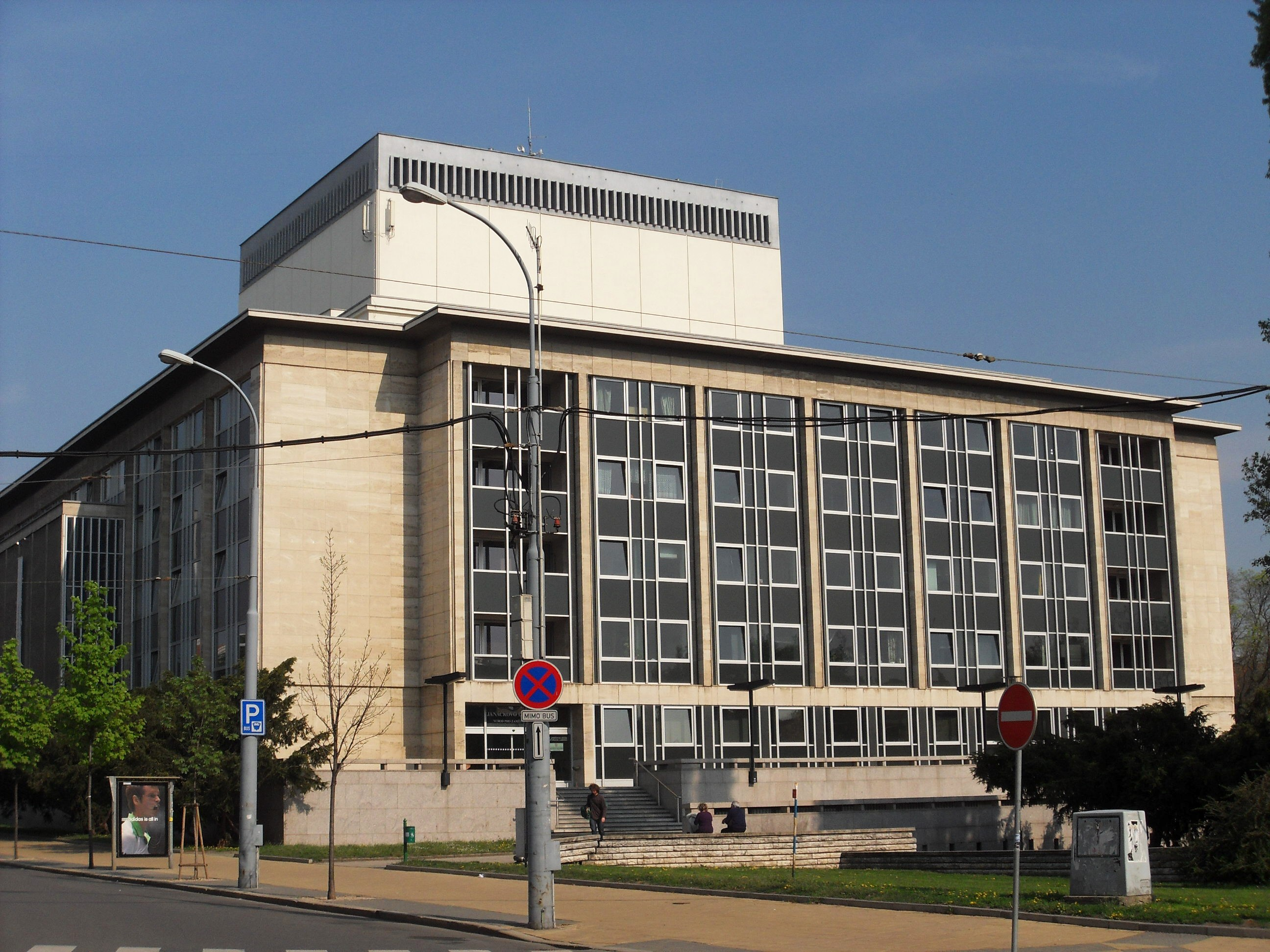 Janáčkovo divadlo (Janáček theater), Rooseveltova street, Brno, Czech Republic